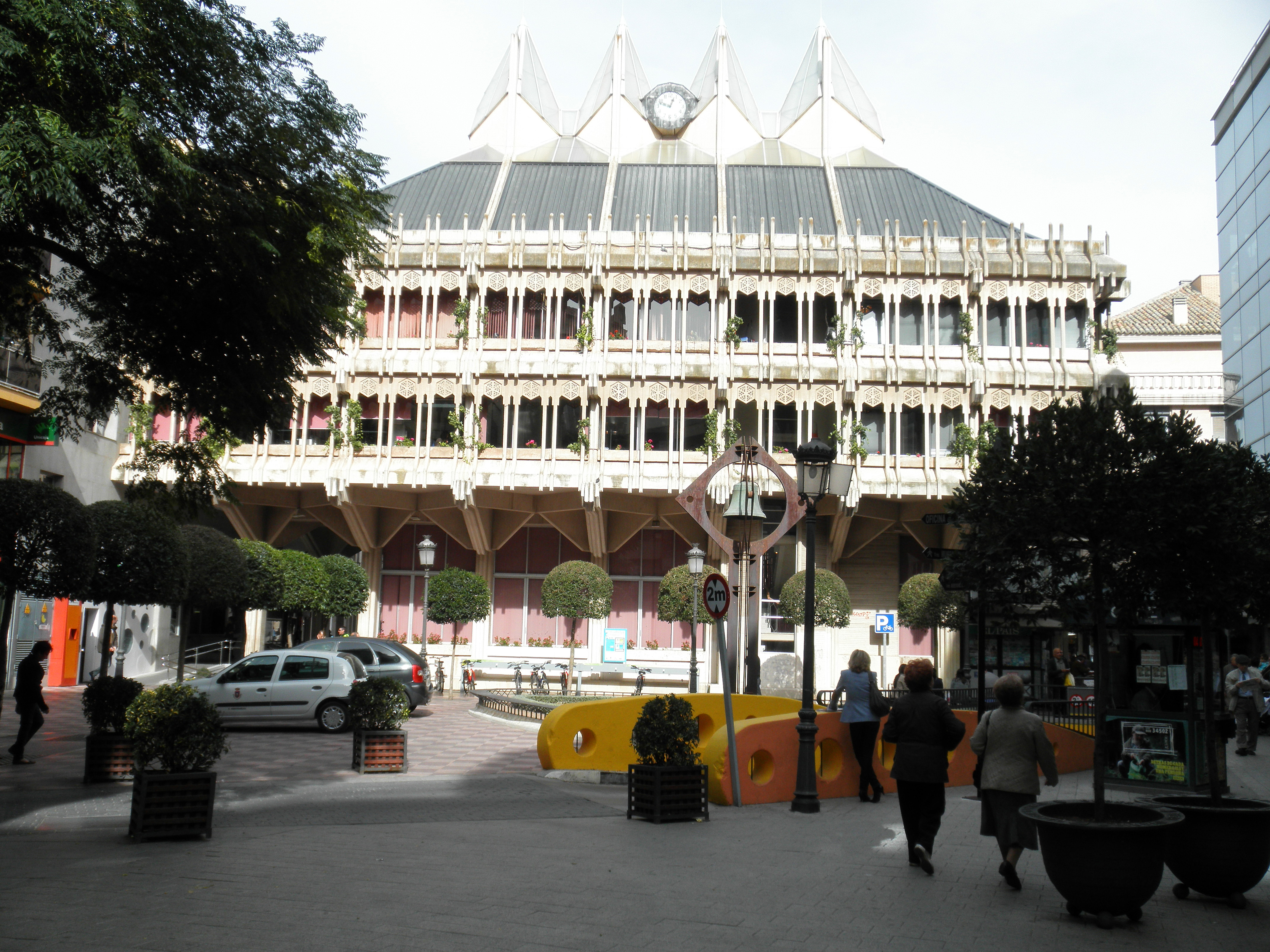 Town Hall, Ciudad Real, Spain